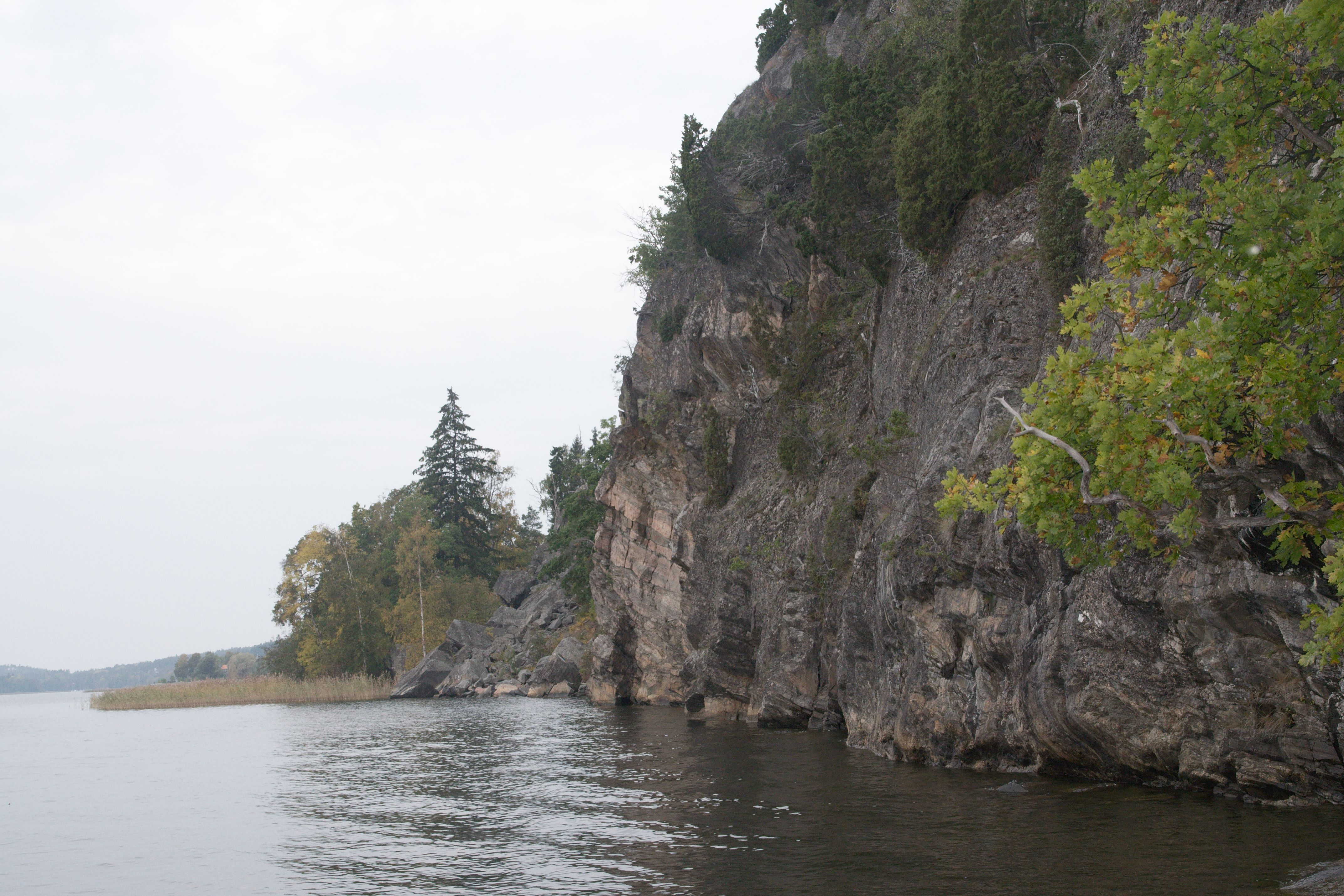 Western Klövbergcave in Tyresö, Sweden